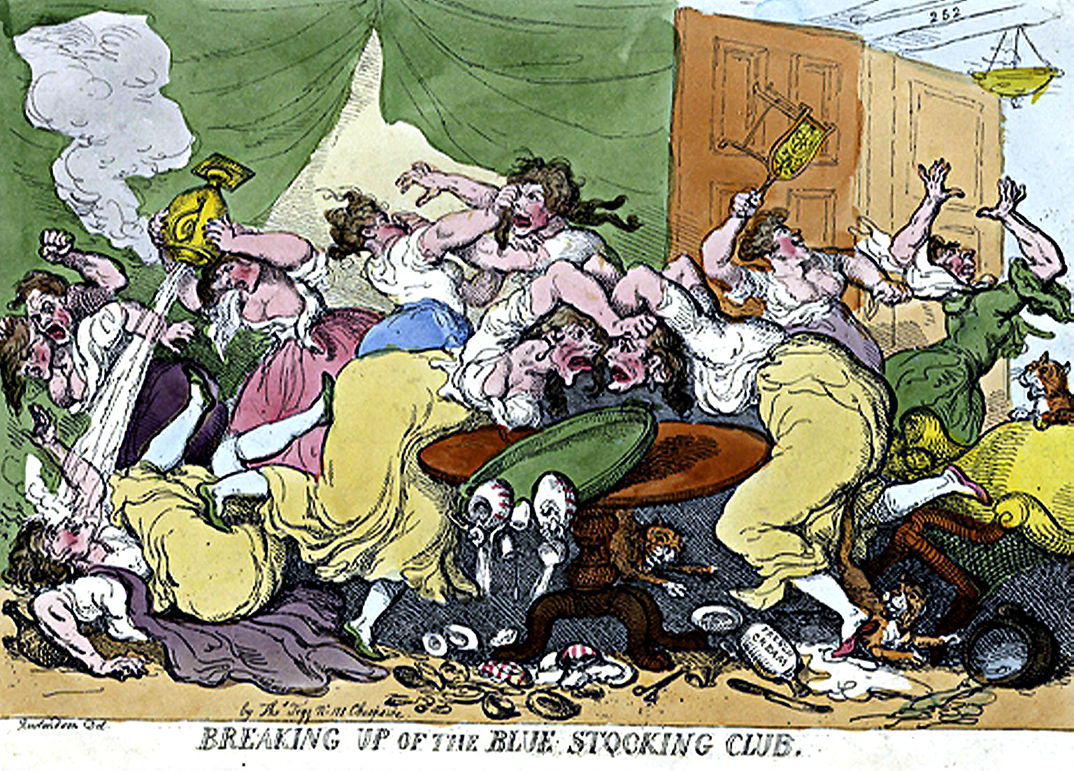 Thomas Rowlandson (1756–1827), Breaking Up of the Blue Stocking Club. Etching, hand-colored (London: Thomas Tegg, 1815. NYPL, The Carl H. Pforzheimer Collection of Shelley and His Circle)